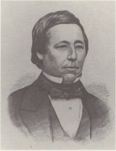 Jonathan Eddy From William D Williamson History of Penobscot County Maine; Note William's is wrong to identify the image as Col. Eddy. The image is that of Col. Eddy's grandson. See portrait @ Bangor Public Library